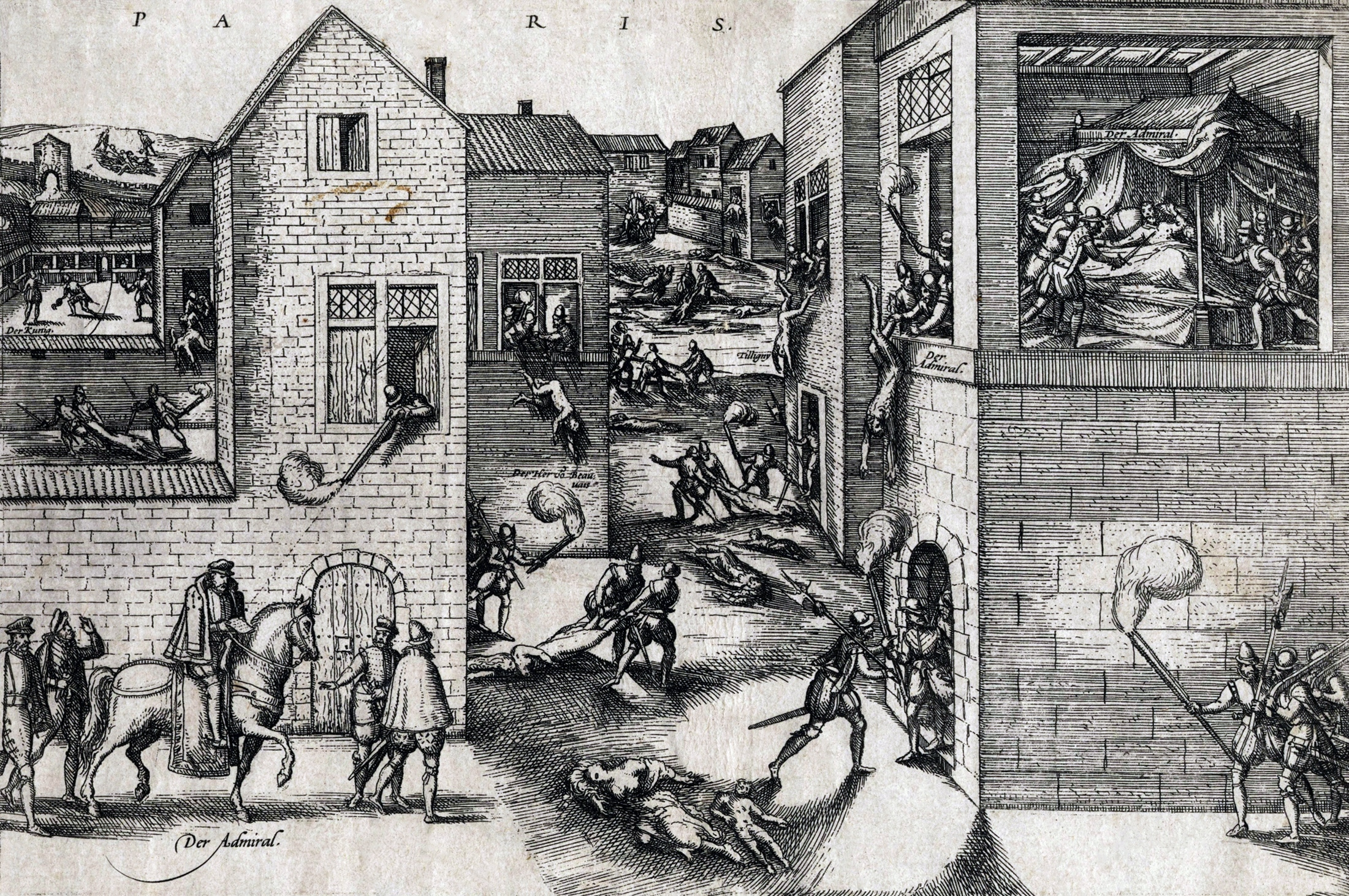 The St. Bartholomew's Day massacre [Hogenberg, Franz; artist.] An early image of the St. Bartholomew's Day Massacre. Engraving, 10 3/4 x 14 inches; disbound, minor edge wear; contemporary printed caption mounted above image. Np, circa 1572